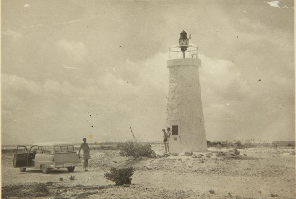 Catalog #: 02-M-00756 Last Name: Musick First Name: CAPT Edwin C Repository: San Diego Air and Space Museum Archive